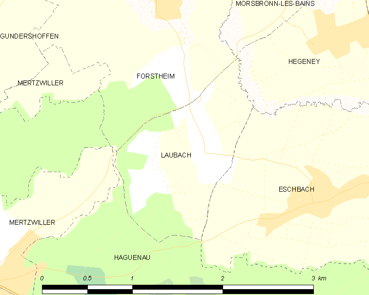 Map of French municipality